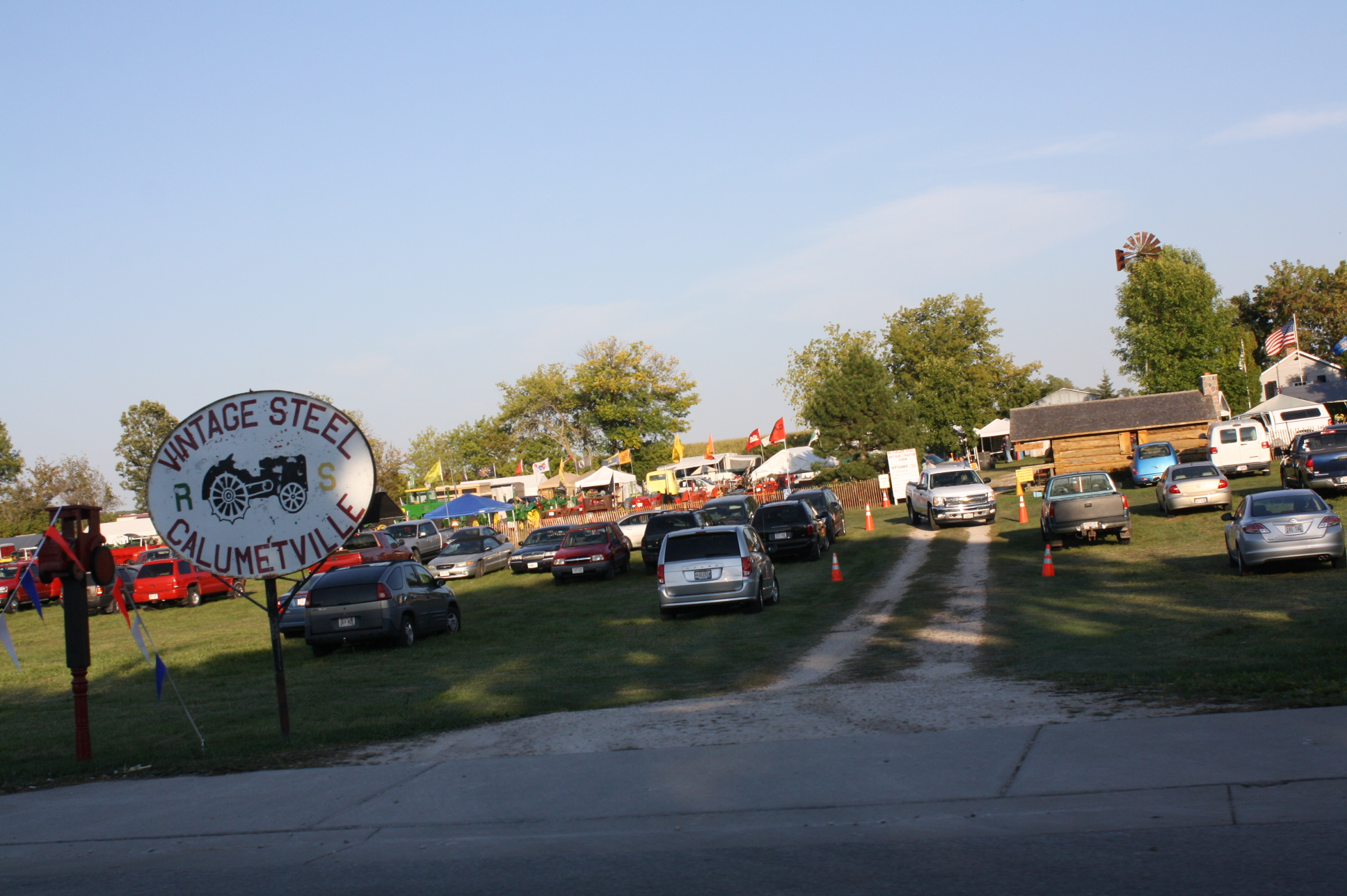 The 2012 Vintage Steel tractor show at Calumetville, Wisconsin.